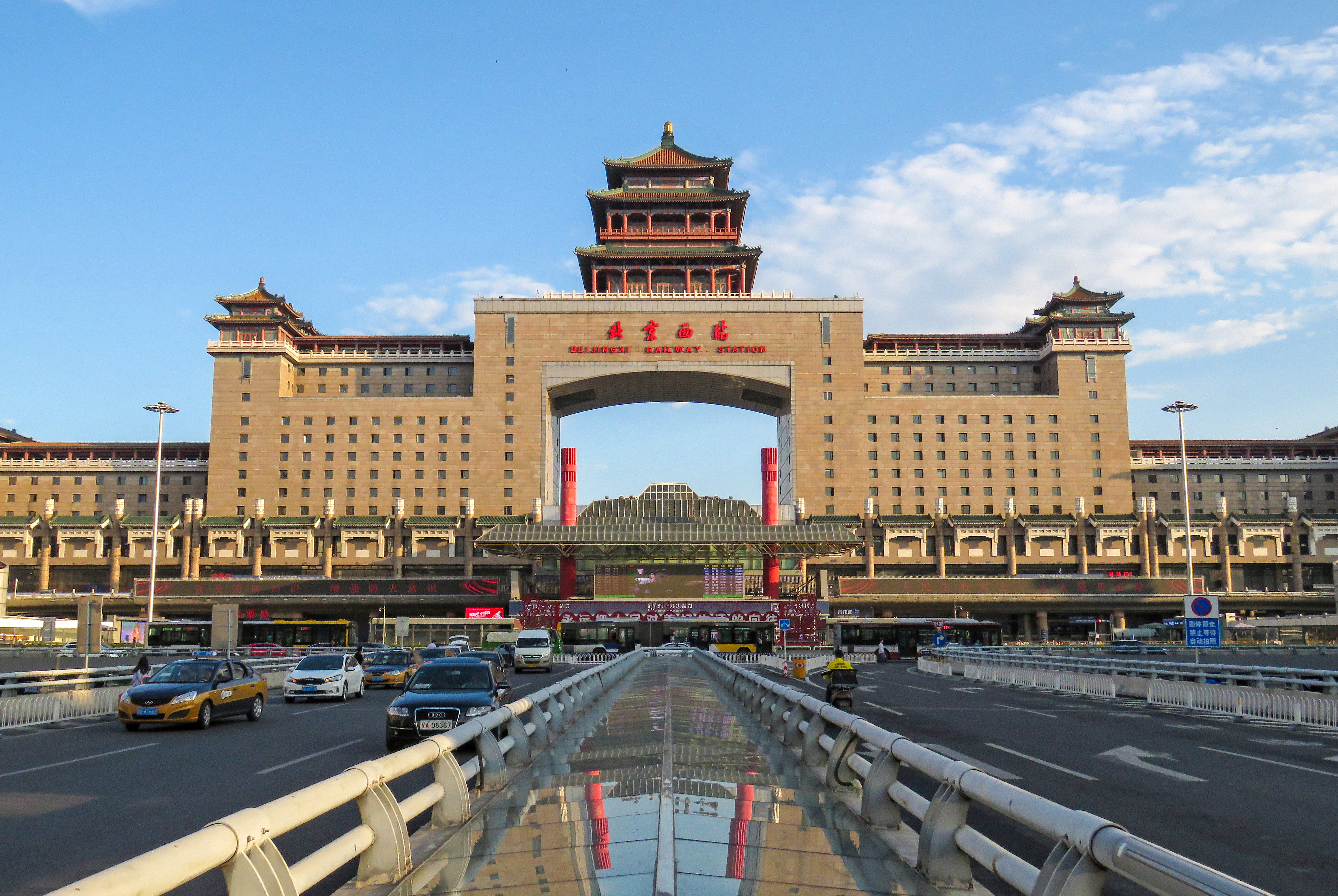 The sun is at the northwest before dusk, so it's a good time for a "profile photo".